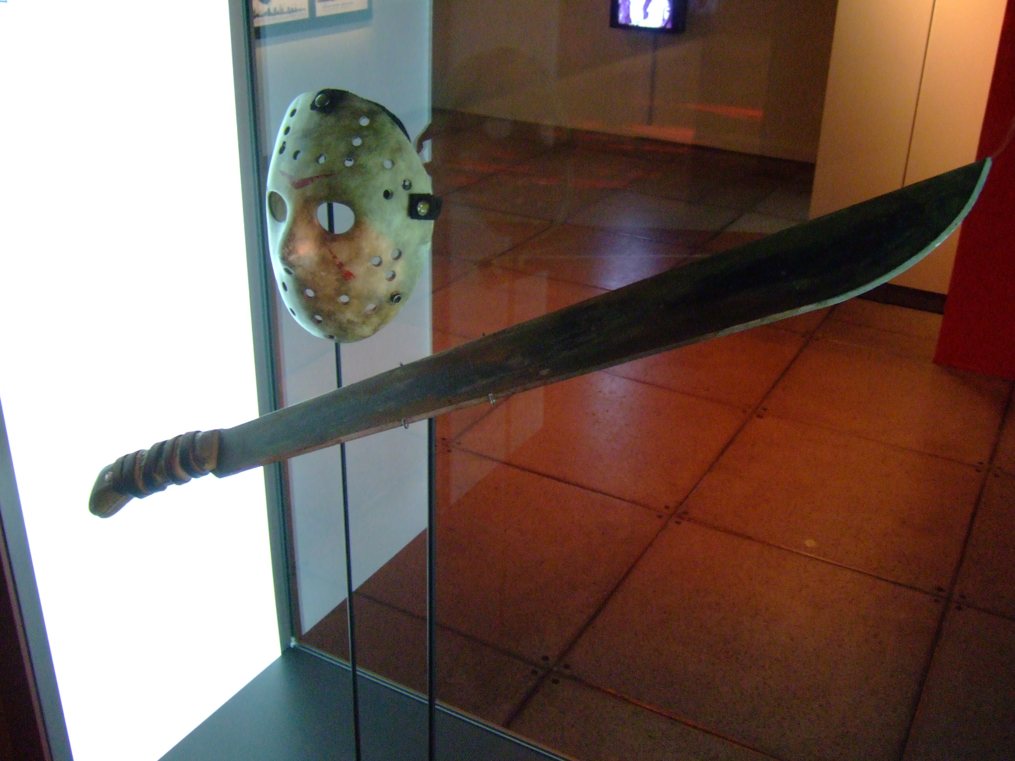 Experience Music Project/Science Fiction Hall of Fame, Seattle.